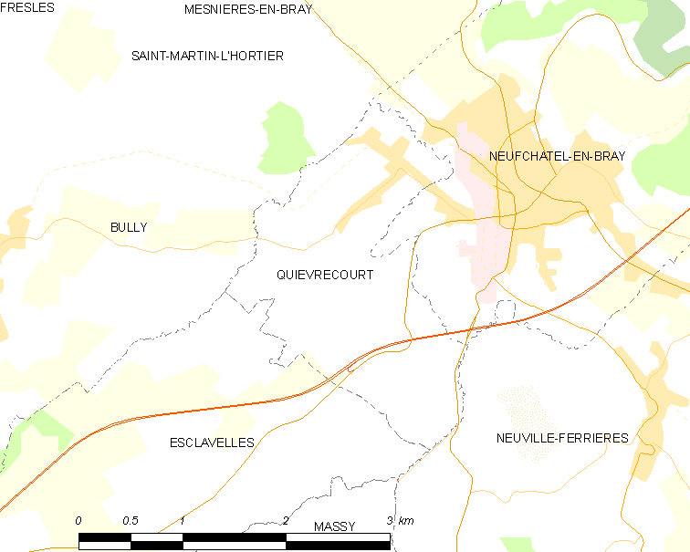 Map of French municipality Quièvrecourt